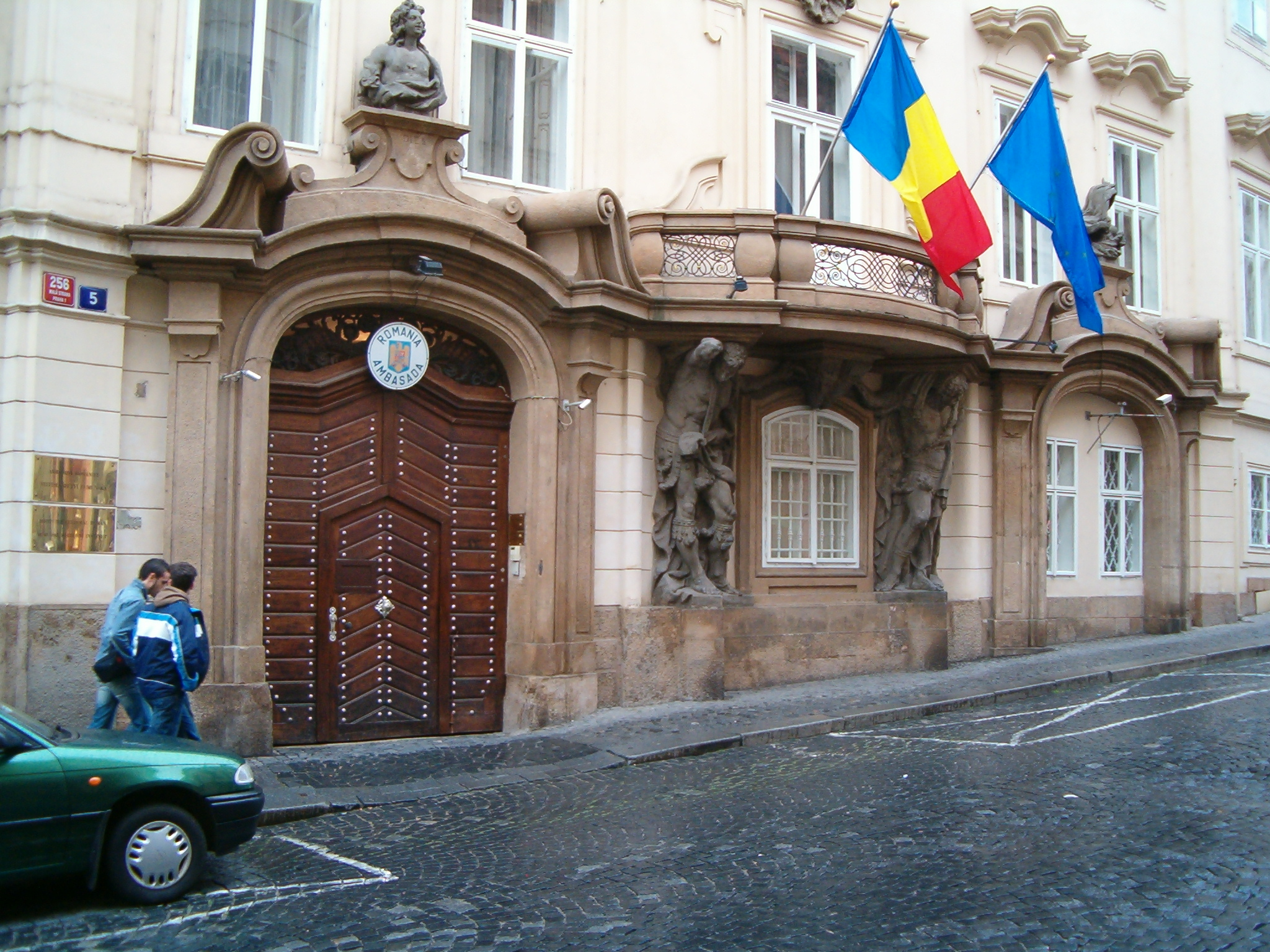 Morzinský palác in Prague, seat of embassy of Romania